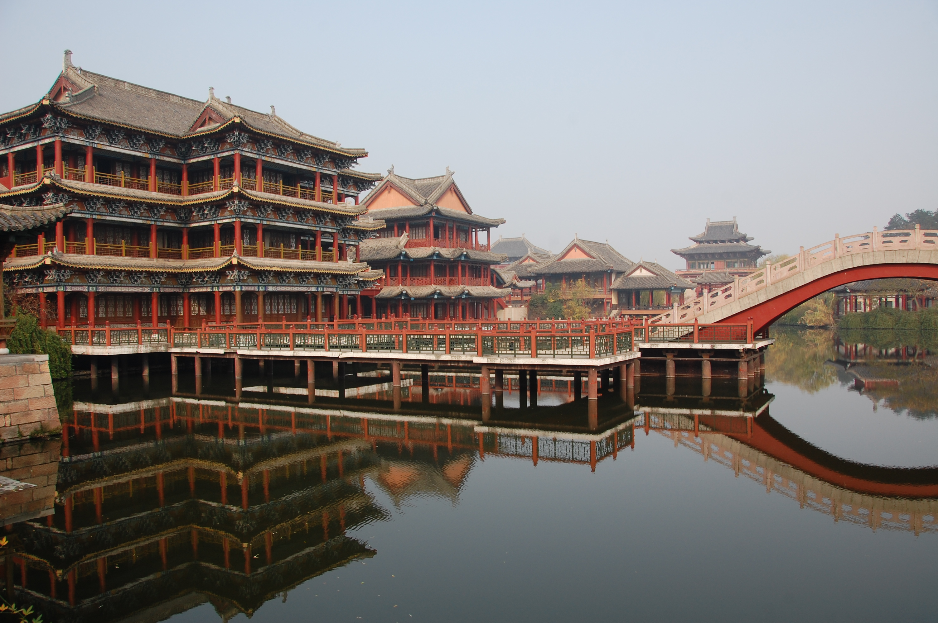 A material reconstitution of the cityscape depicted in the scroll Along the River During the Qingming Festival at Hengdian World Studios.